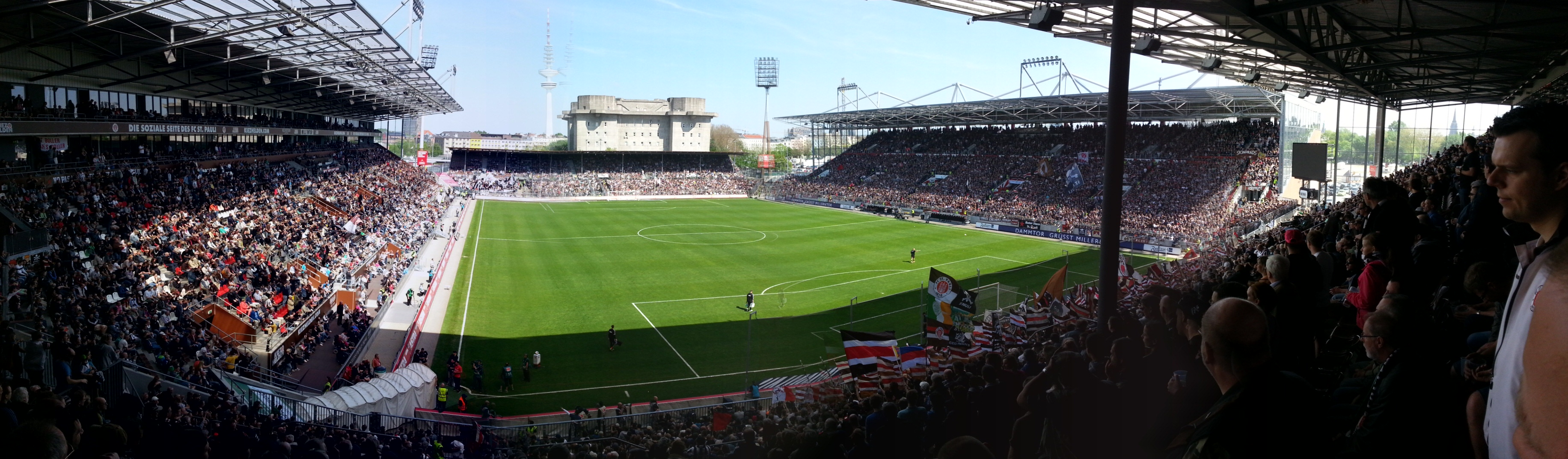 Millerntor-Stadium during the homegame against VfR Aalen